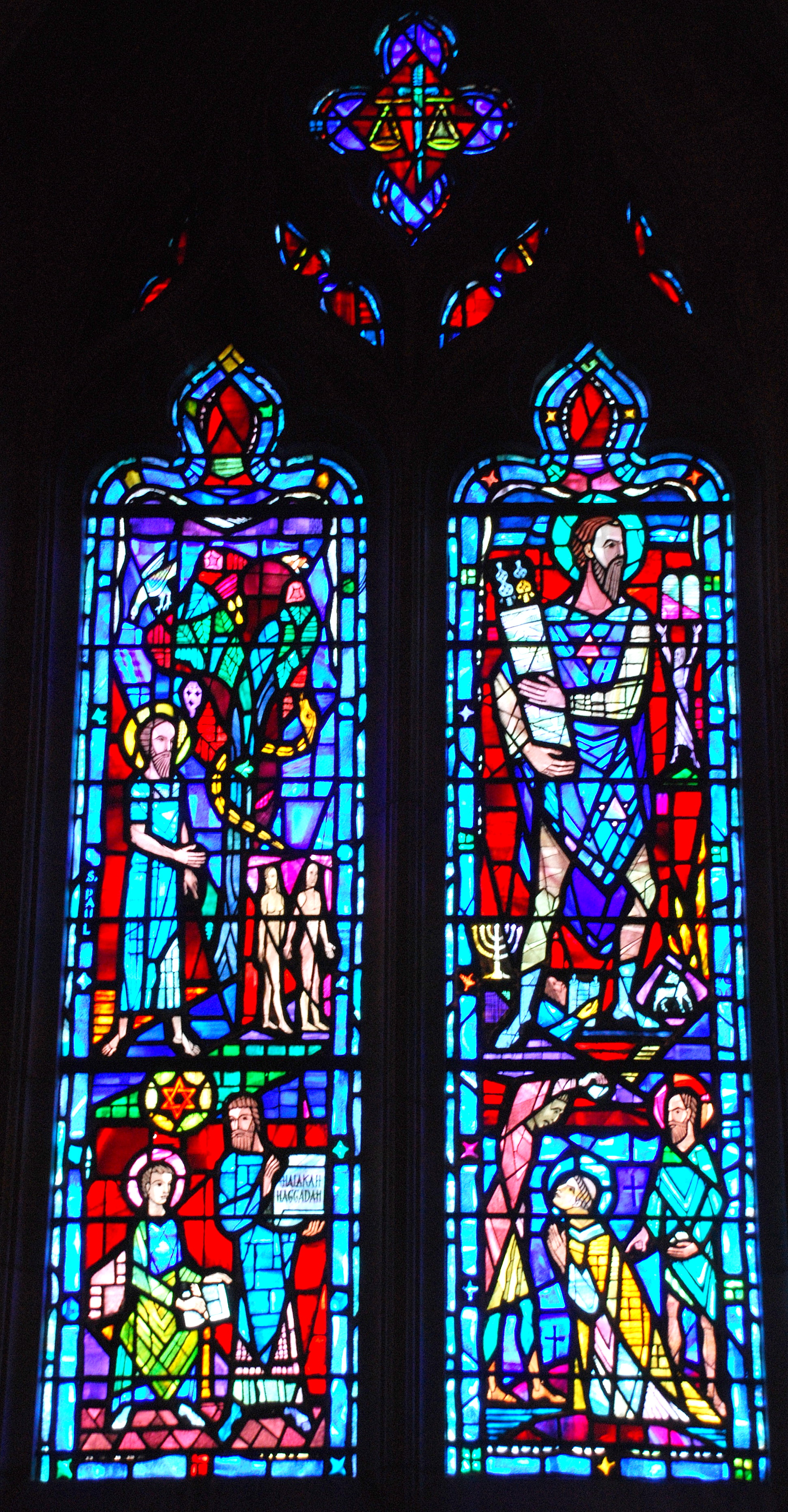 Stain Glass tribute to Charles Warren in the National Cathedral